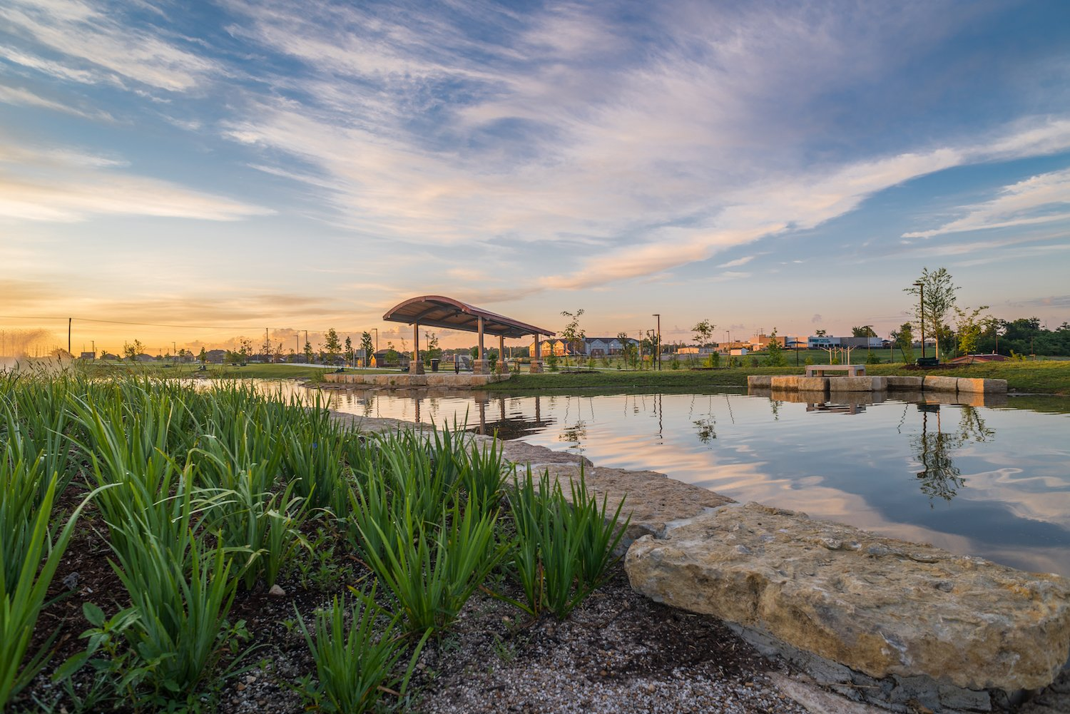 RE Smith